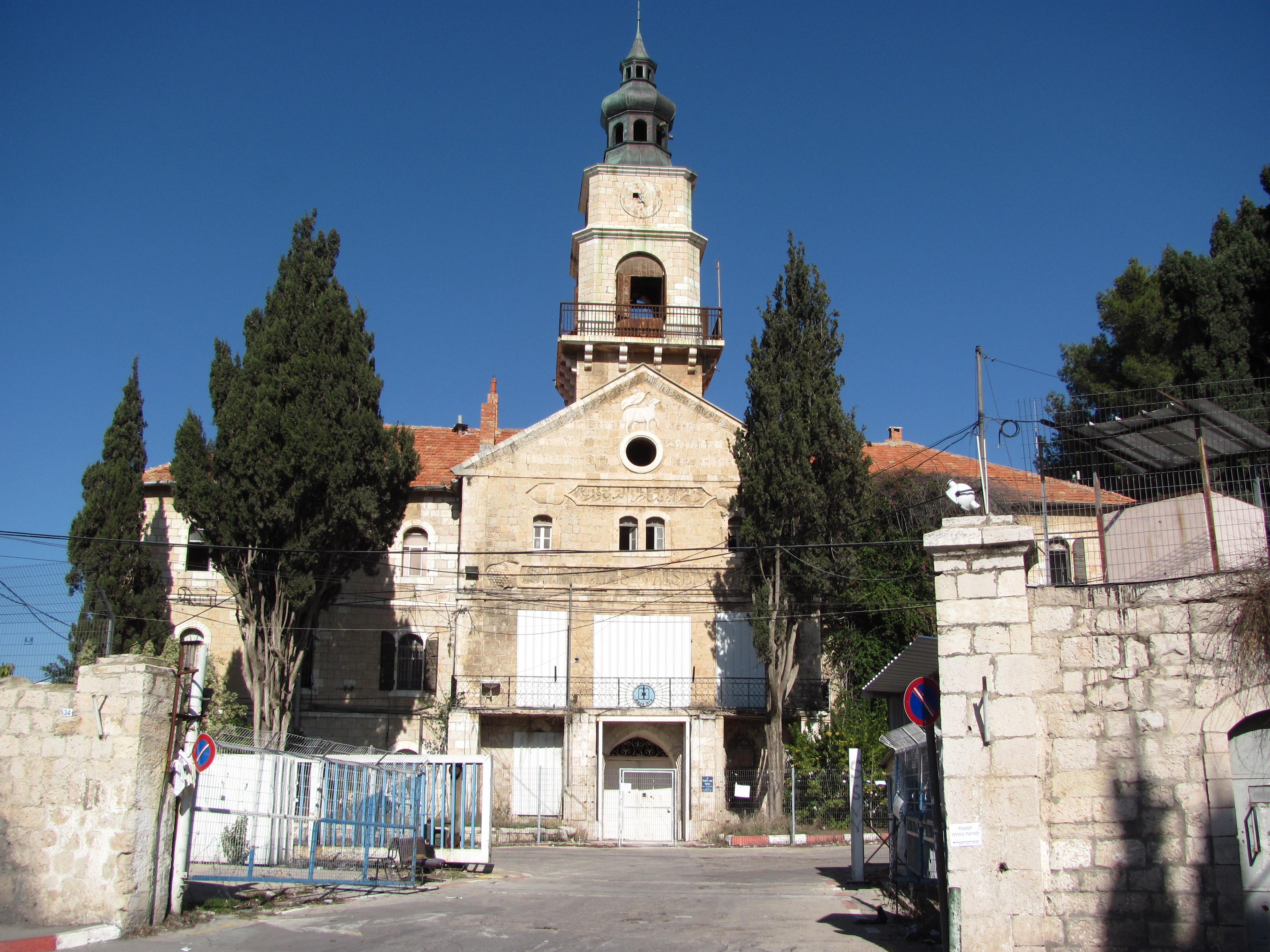 Facade of main building of Schneller Orphanage on Malkhei Yisrael Street, Jerusalem.